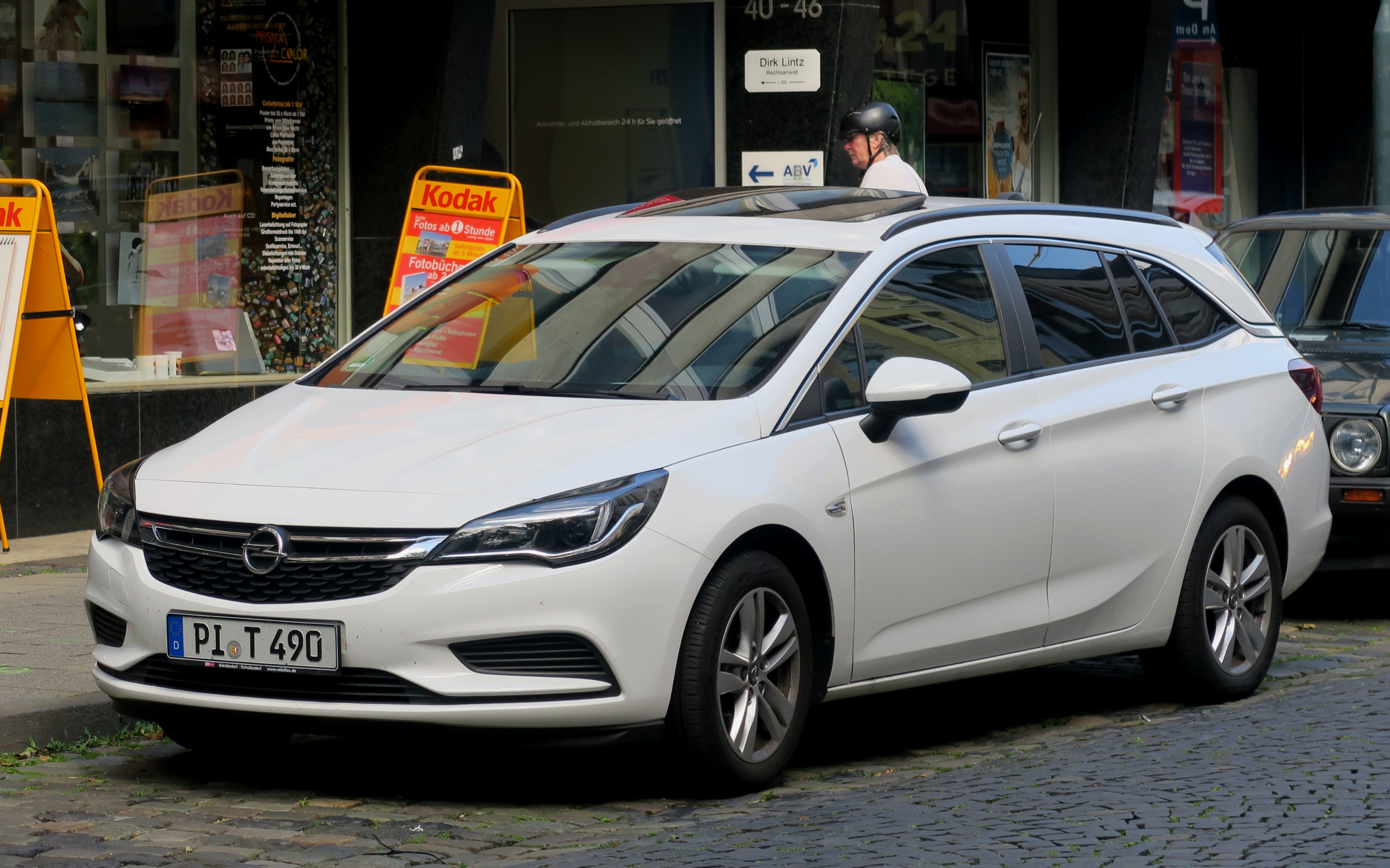 Opel Astra Sports Tourer aus Pinneberg in Aachen